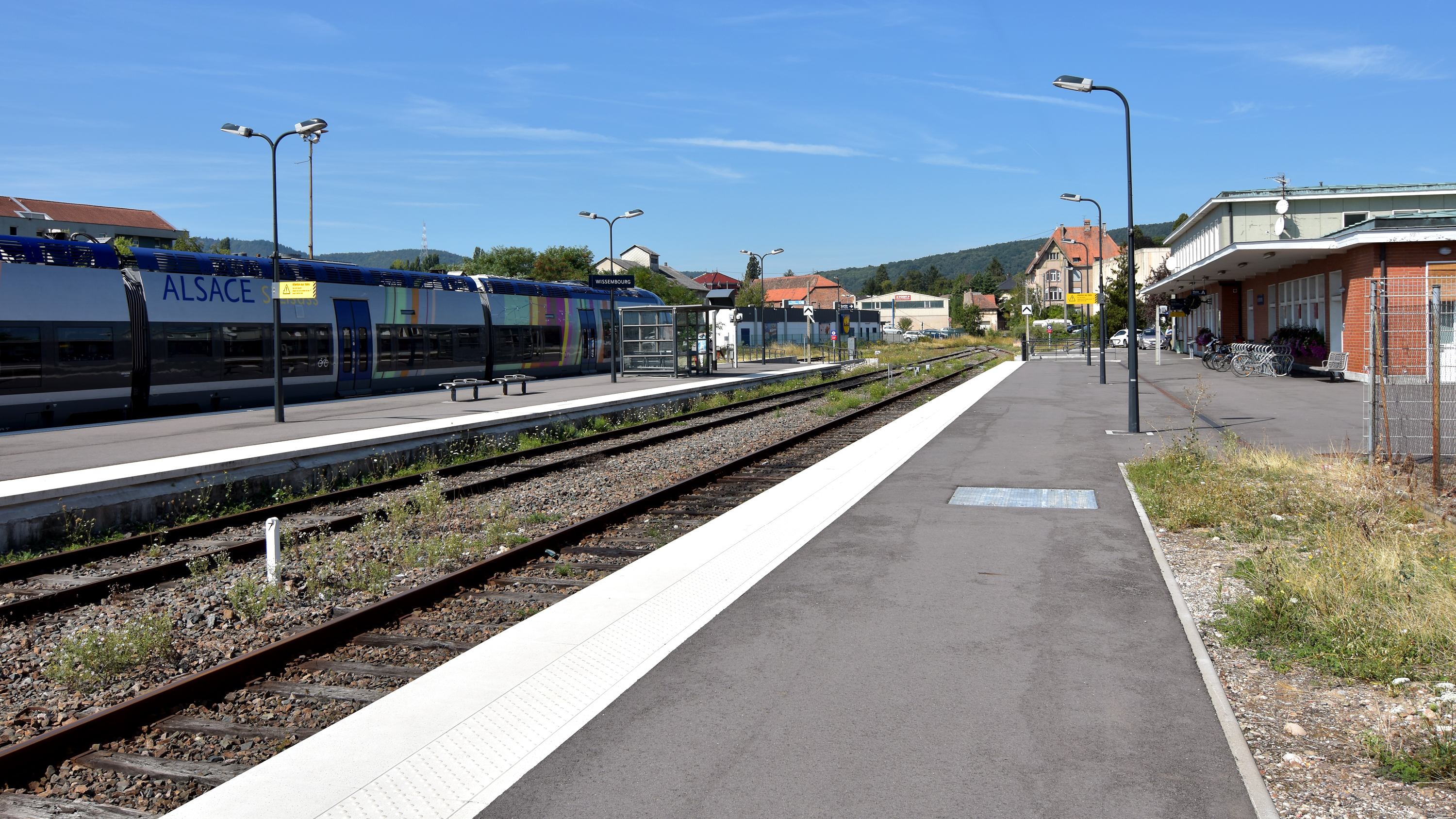 Station Wissembourg